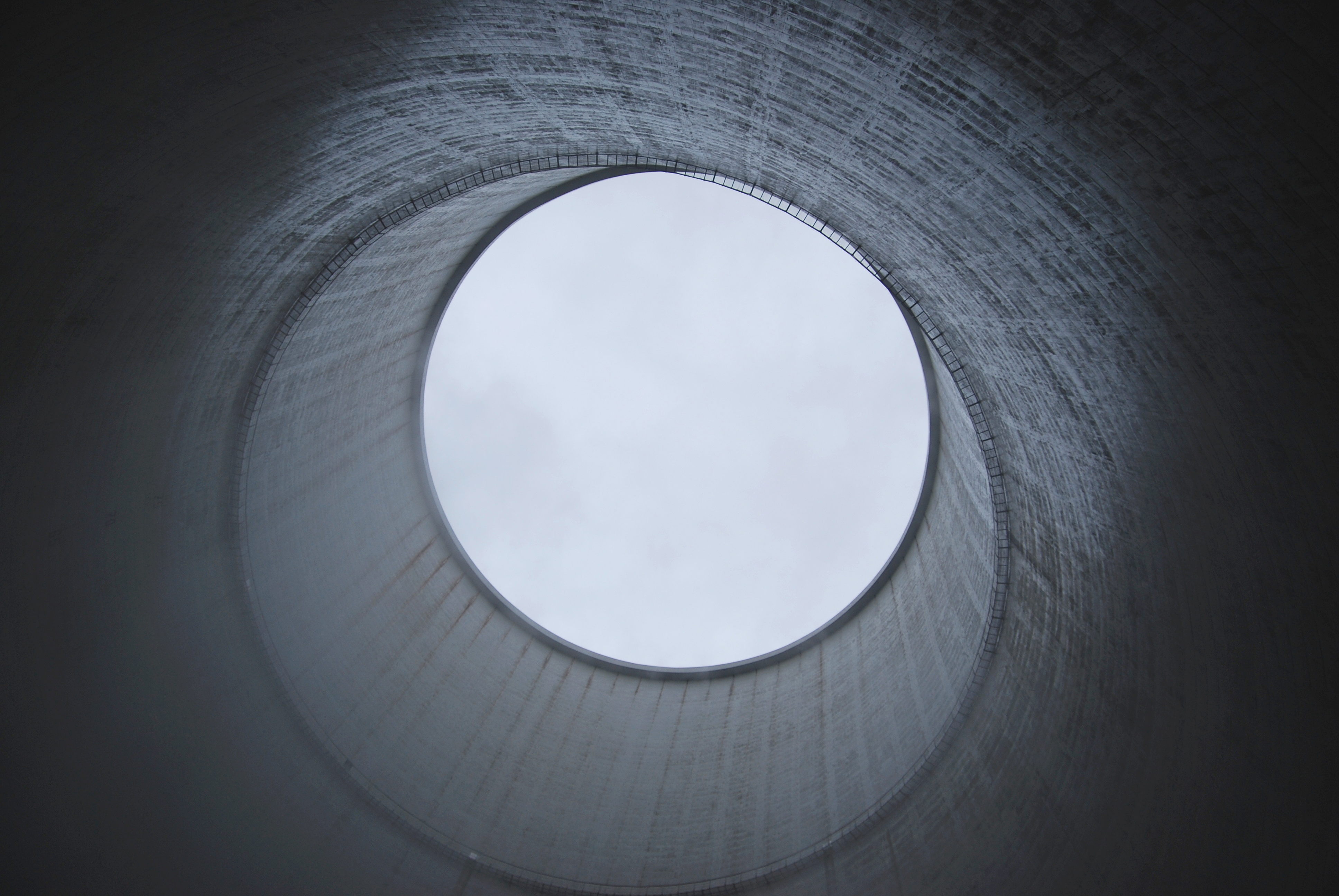 Inside the cooling tower of Heilbronn power plant, Germany.